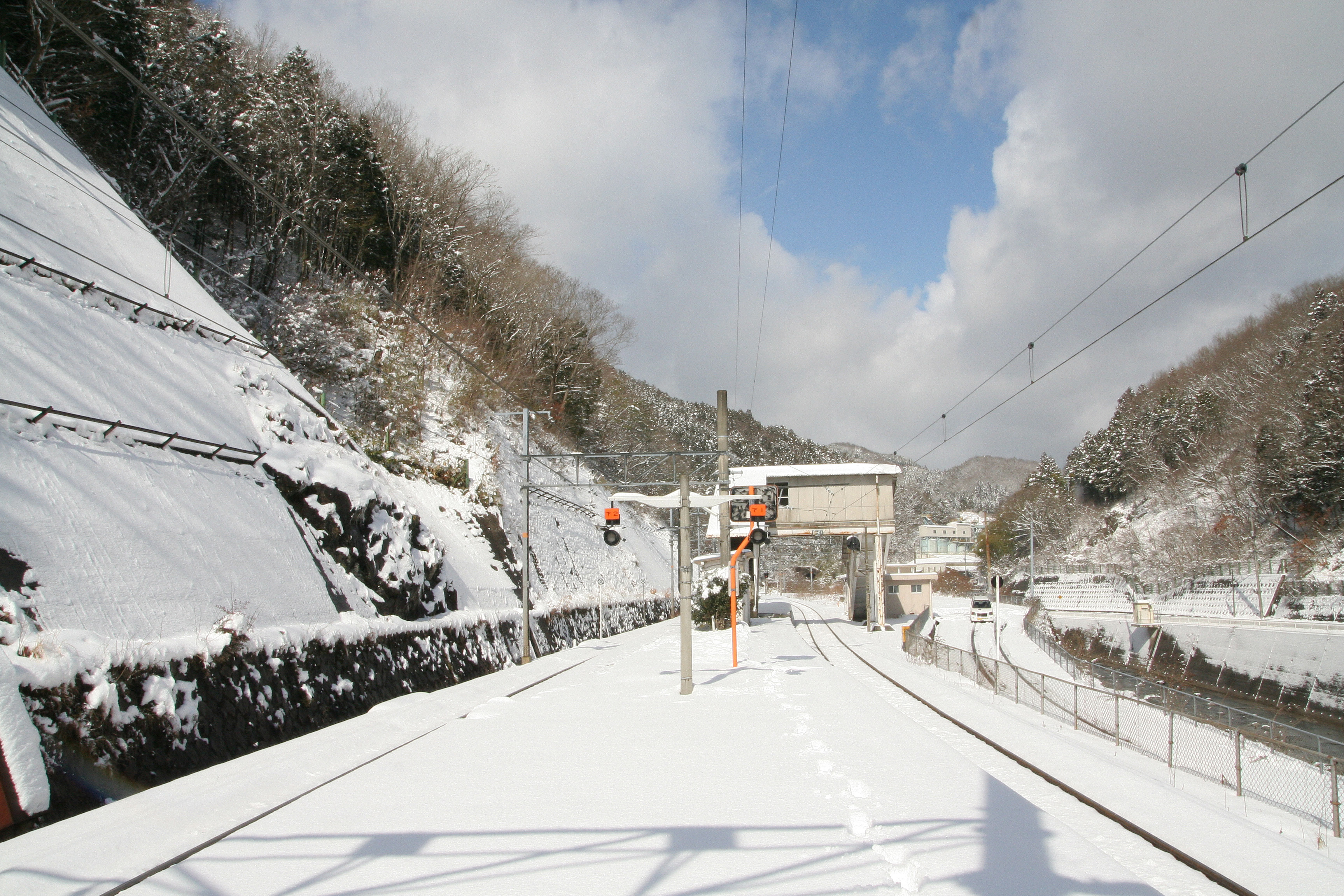 West Japan Railway Company Hakubi Line Ashidachi Station enclosure